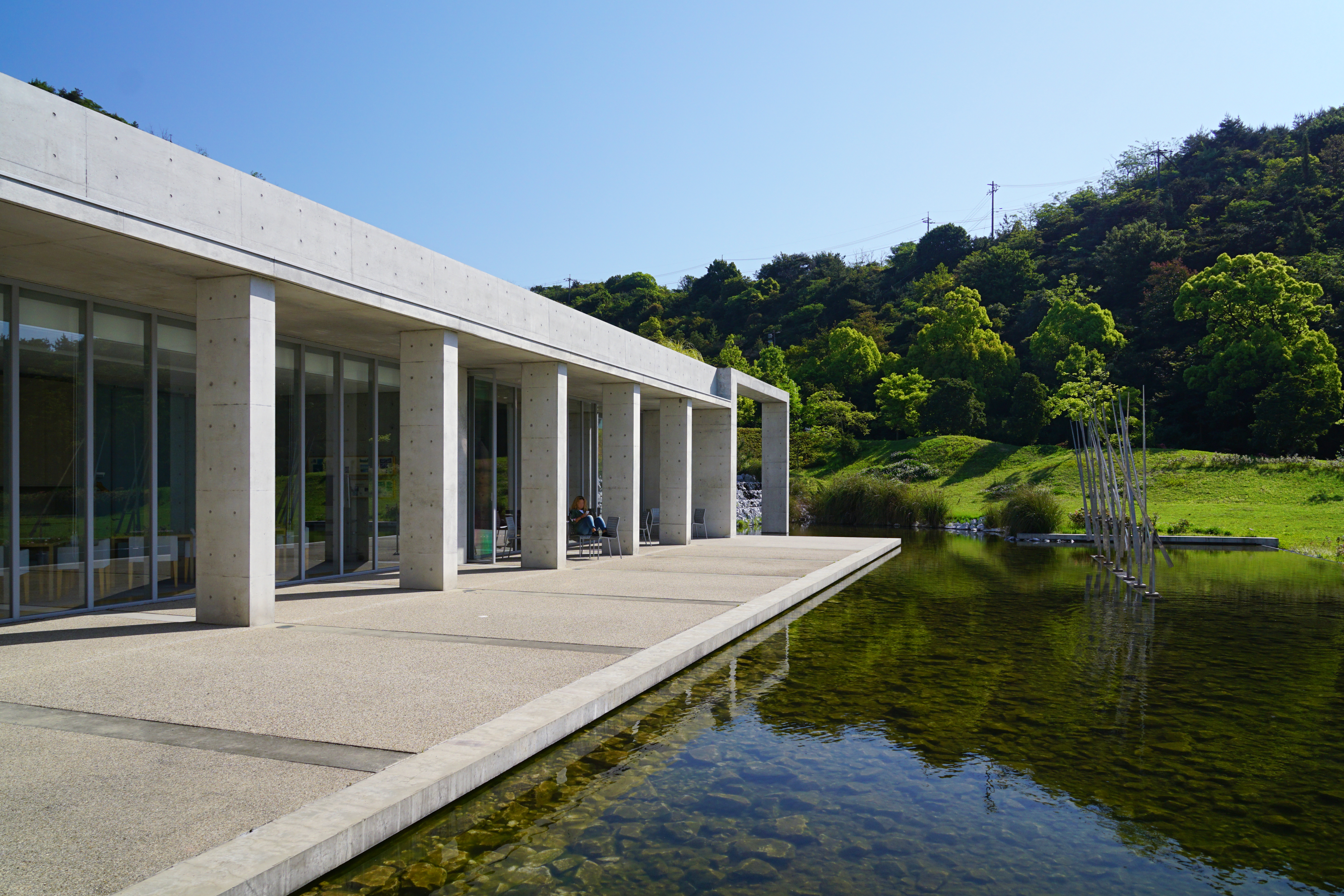 Benesse House "Park" of Benesse Art Site Naoshima in Naoshima, Kagawa prefecture, Japan